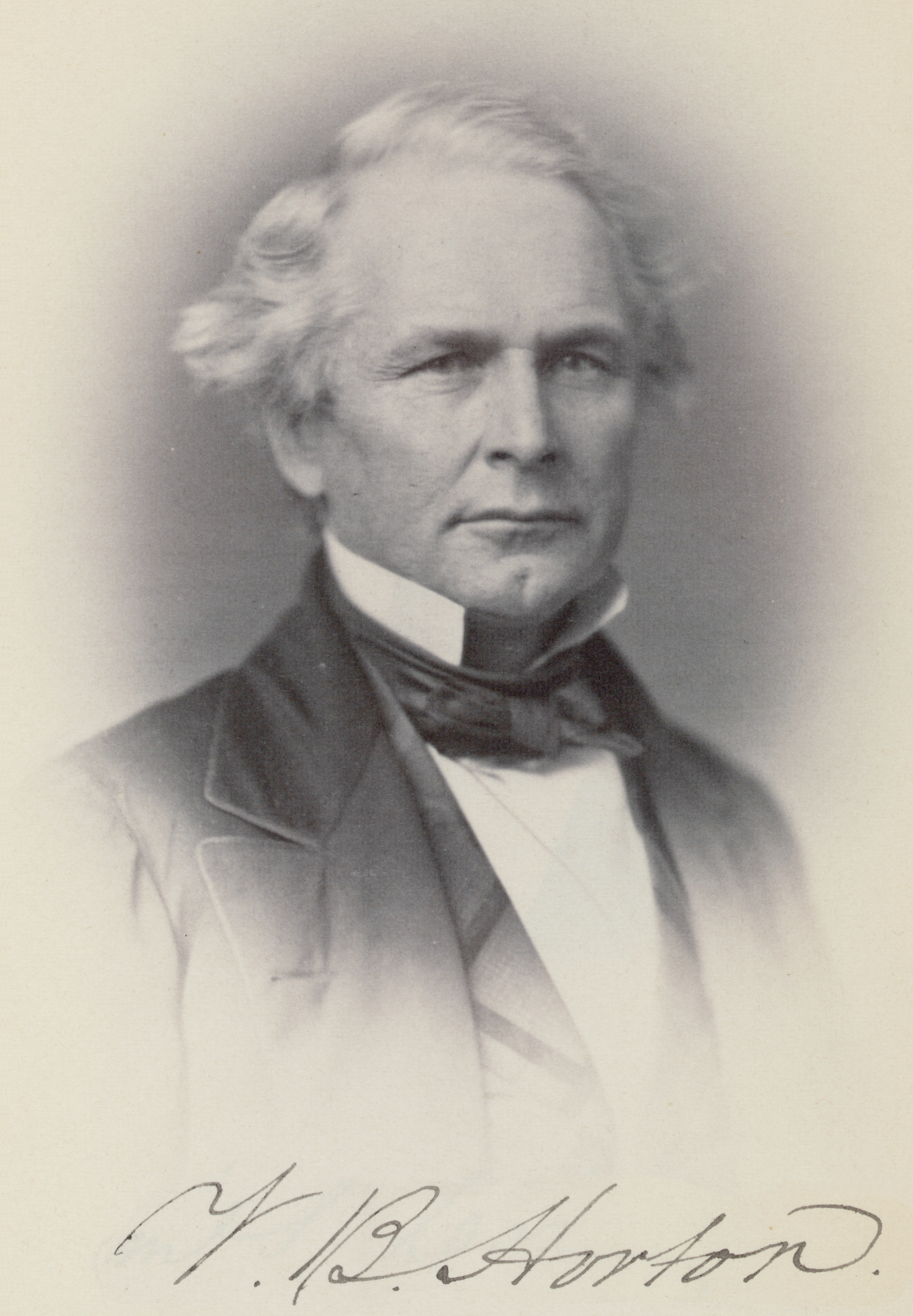 Valentine B. Horton, congressman from Pomeroy, Ohio. From (1859) McClees' gallery of photographic portraits of the senators, representatives & delegates to the thirty-fifth Congress, Washington: McClees and Beck, p. 203 .